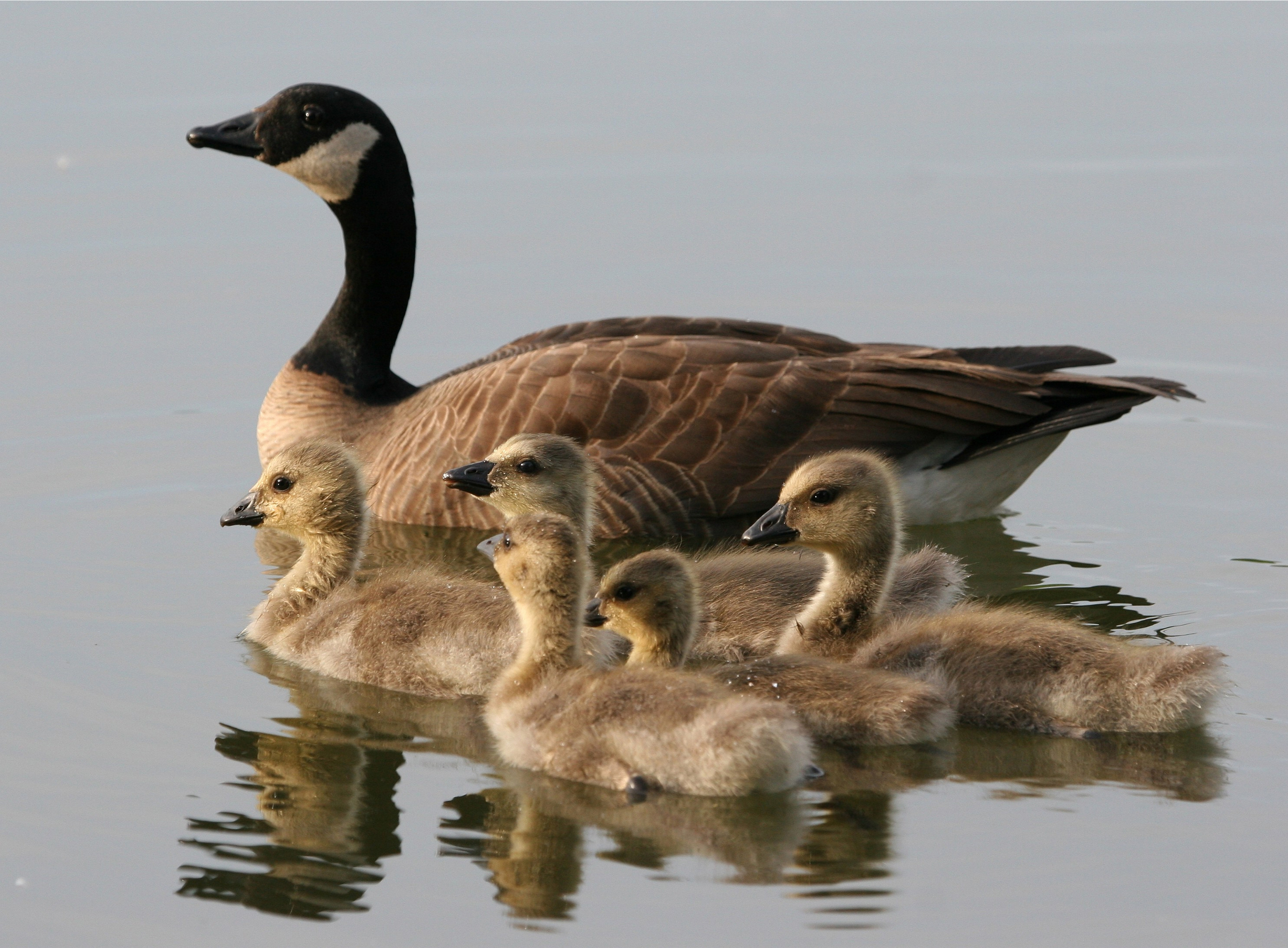 Lesser Canada goose brood This image was taken at Cheney Lake, Anchorage, Alaska.